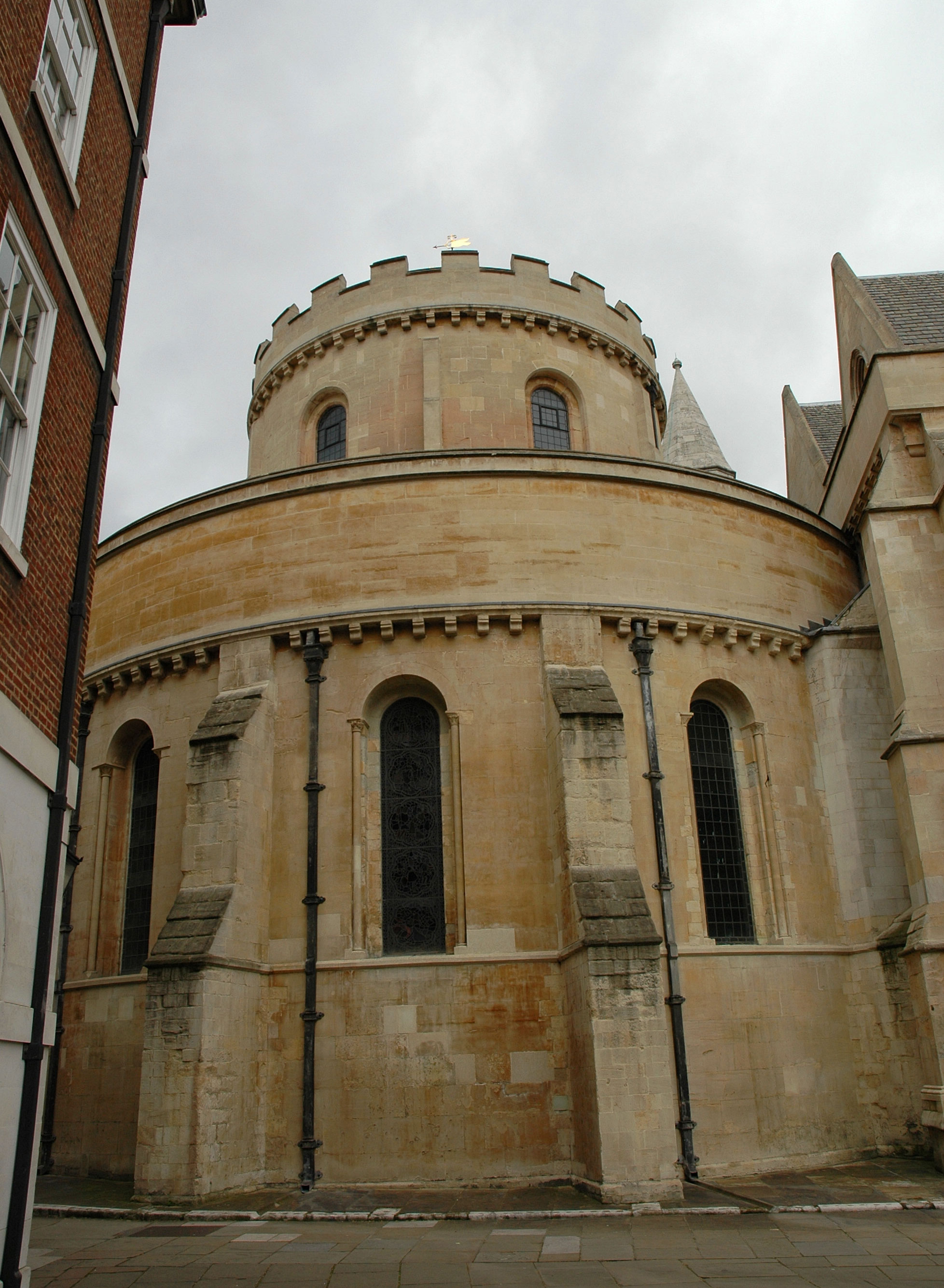 Temple Church, London